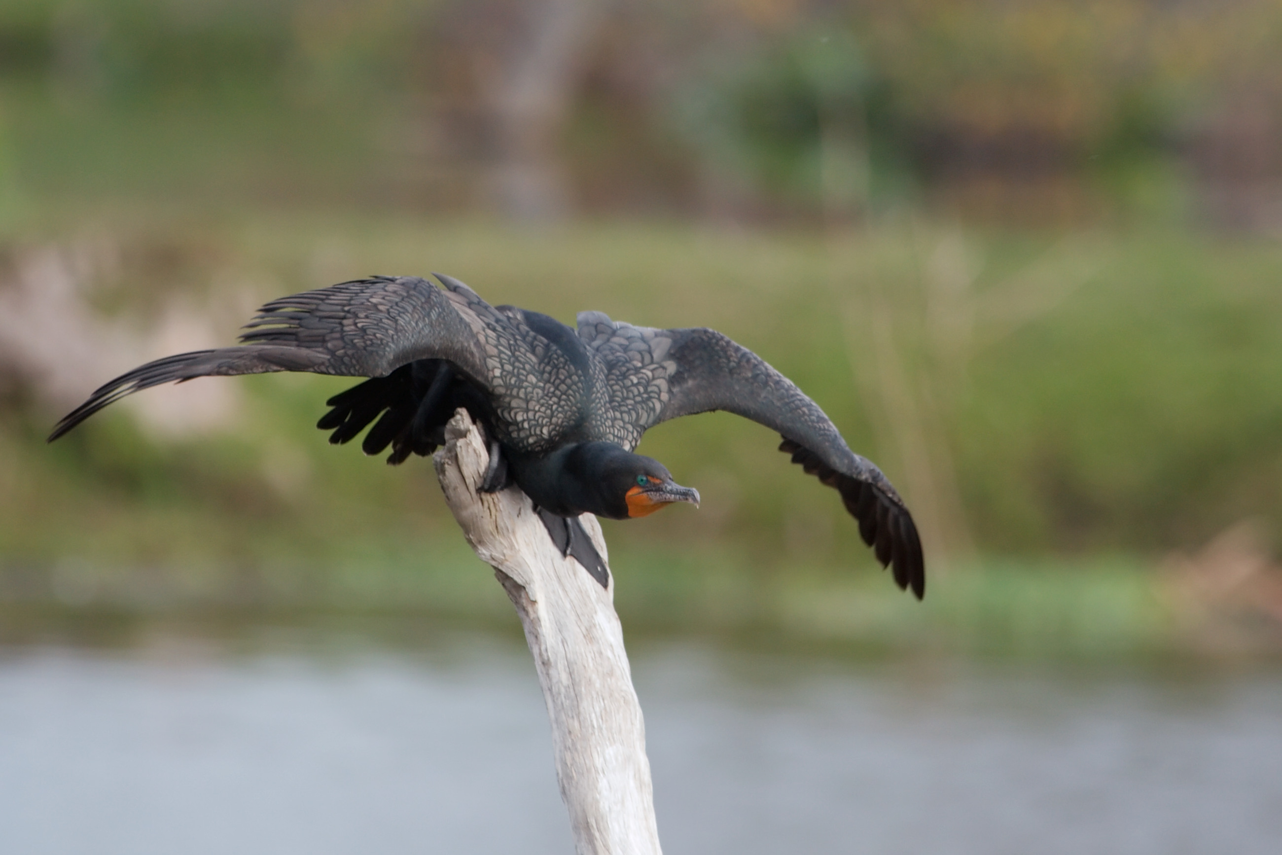 A Double-crested Cormorant (Phalacrocorax auritus), Wakodahatchee Wetlands, Delray Beach, Florida